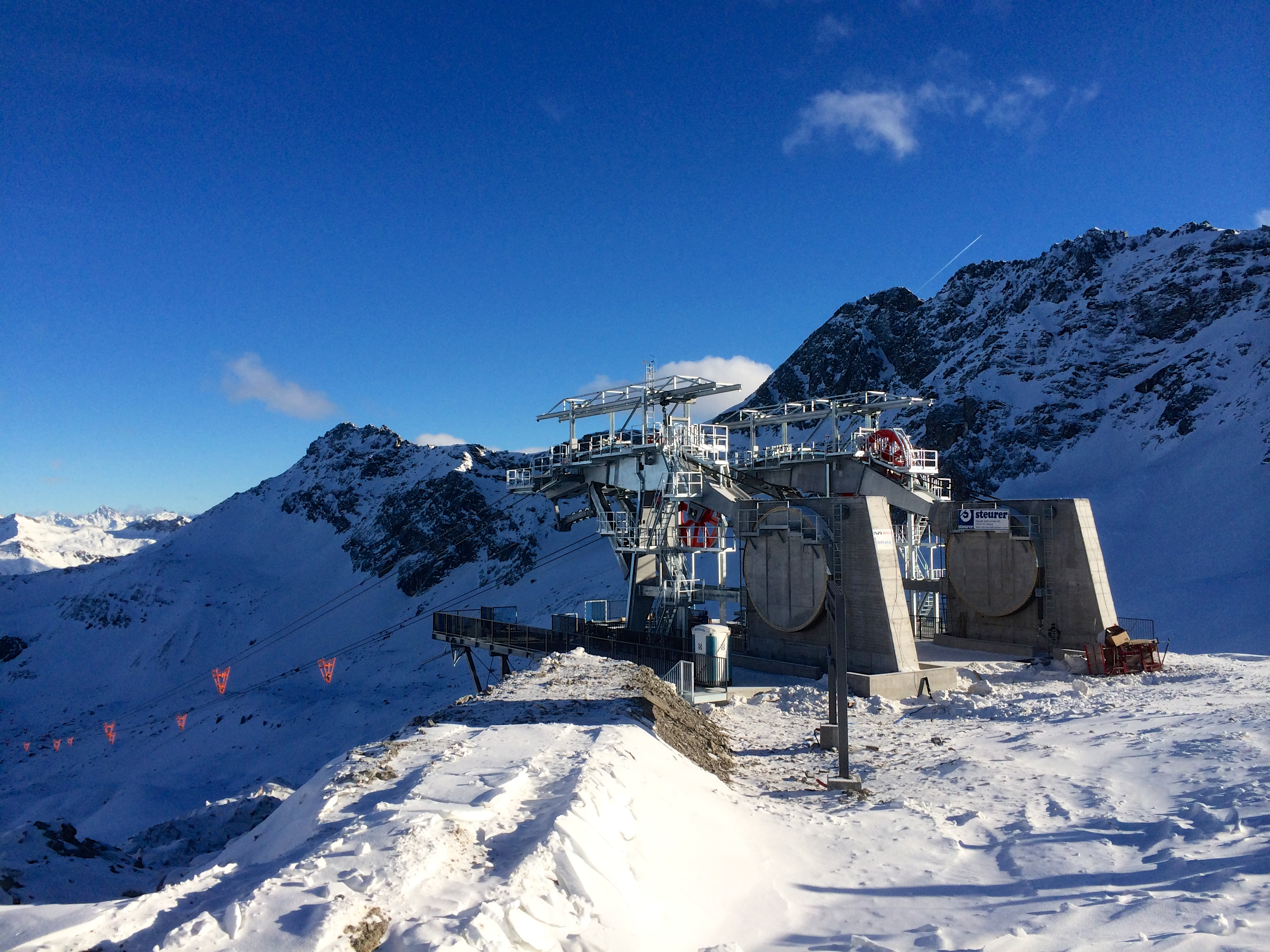 Cableway "Urdenbahn", station Urdenfürggli, before being operational, Arosa Lenzerheide/Switzerland